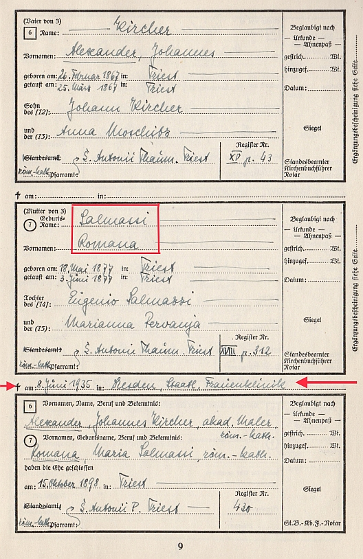 Ancestral passport Family Kircher - Salmassi - Page 9, with entry of the place of death and date of Romana Salmassi.